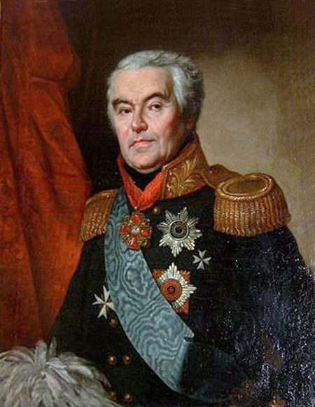 Sergey Kuzmich (or Kozmich) Vyazmitinov (1744-1819) russian general Governor of S-Peterburg, War Minister